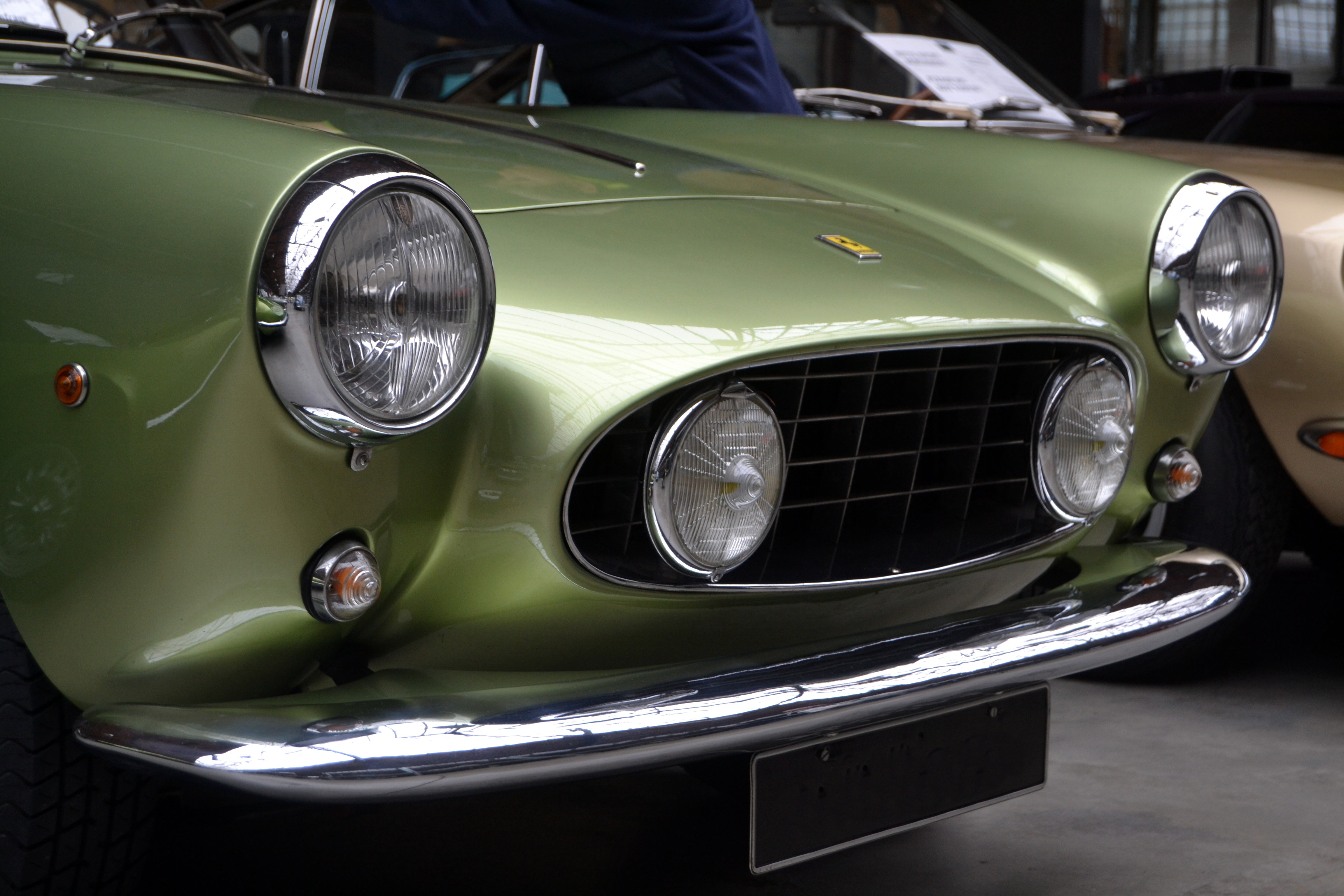 Ferrari 250 GT, Body by Ellena